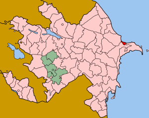 Map of Azerbaijan showing Sumqayit sahar